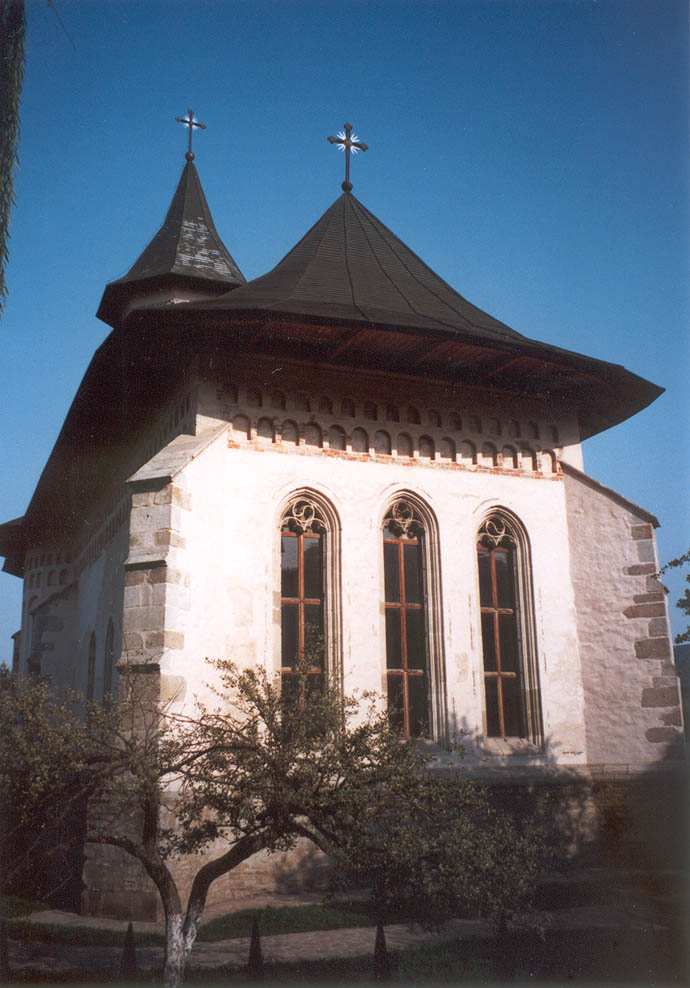 St. Demetrius Church in Suceava.